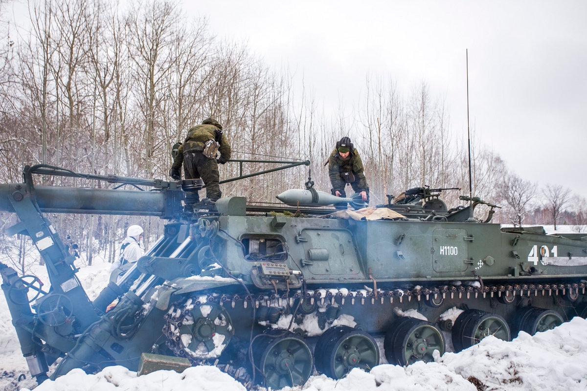 2S4 Tyulpan 240mm heavy mortar of 45th High-Power Artillery Brigade.